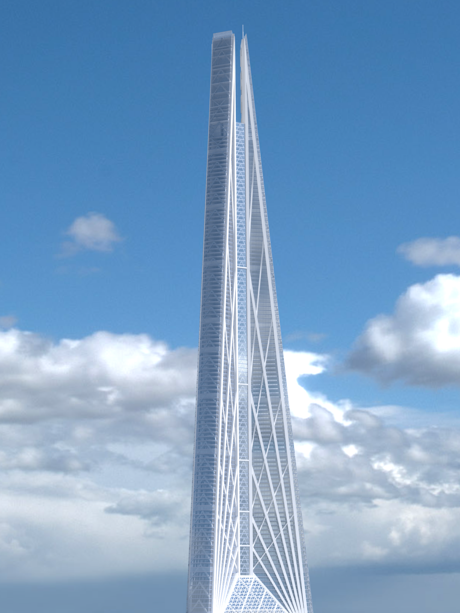 3D model of Foster's Russia Tower, done with Blender 2.79